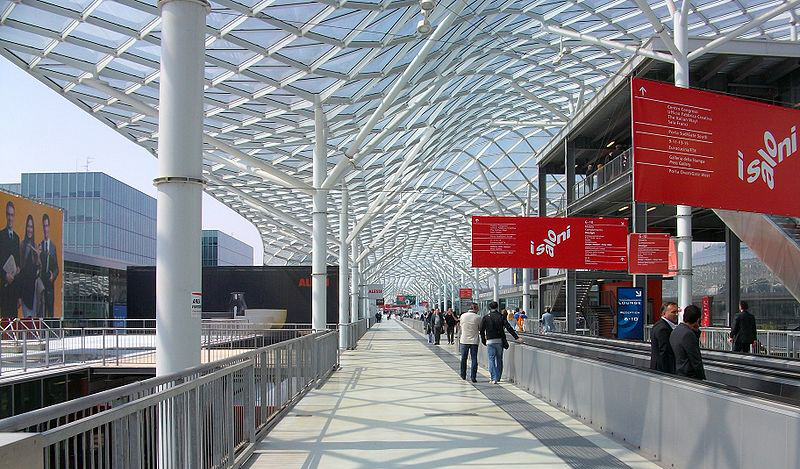 Fieramilano Rho Pero